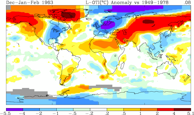 Anomaly of surface temperature for the months December, January and February of the Winter 1962/63, compared to the average temperatures of winters 1949 to 1978.